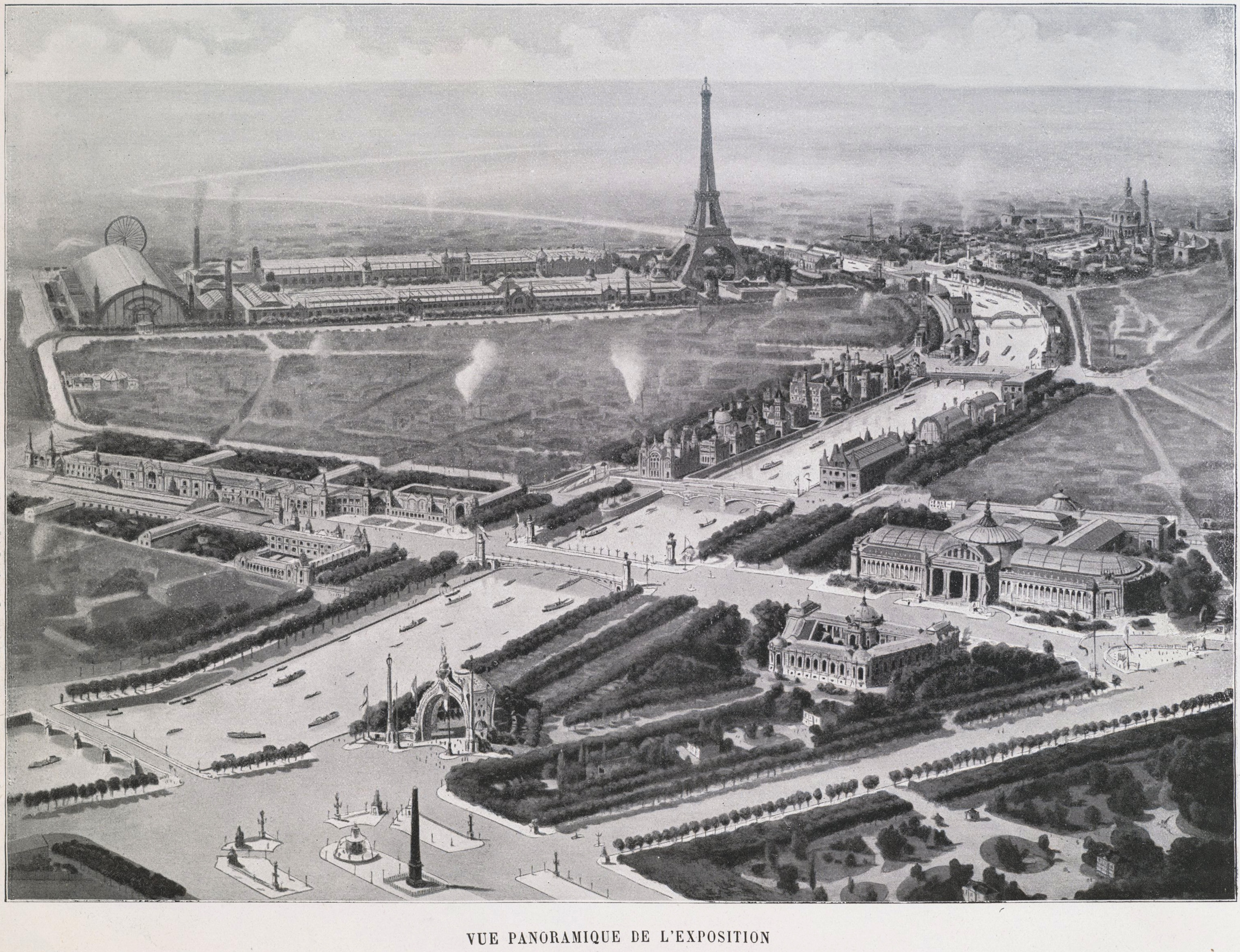 Panoramic view of the 1900 Paris World Fair. The first building in the foreground of the image is the entrance gate designed especially for the exhibit. On the right of the gate stand the Petit Palais and the Grand Palais, and facing them (on the left bank of the river Seine) is the Esplanade des Invalides. The fair occupied mostly the Champ de Mars (in the background), next to the Eiffel Tower.